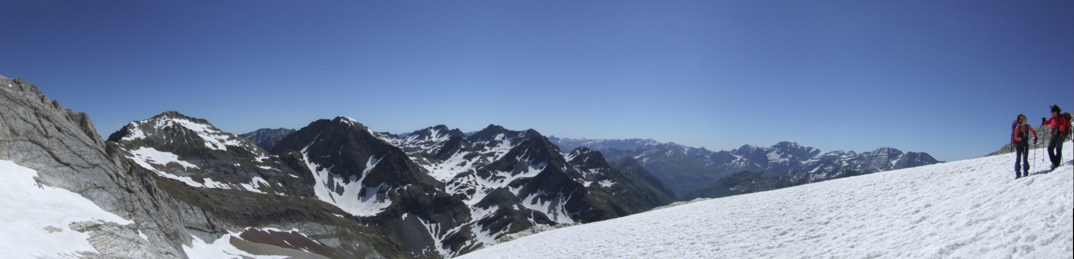 View from the Ossoue Glacier, Vignemale, Pyrenees, France